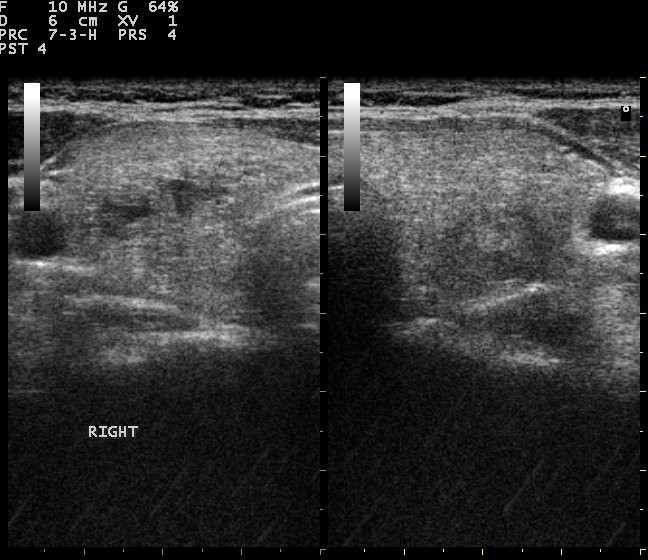 Transverse ultrasound through the thyroid gland